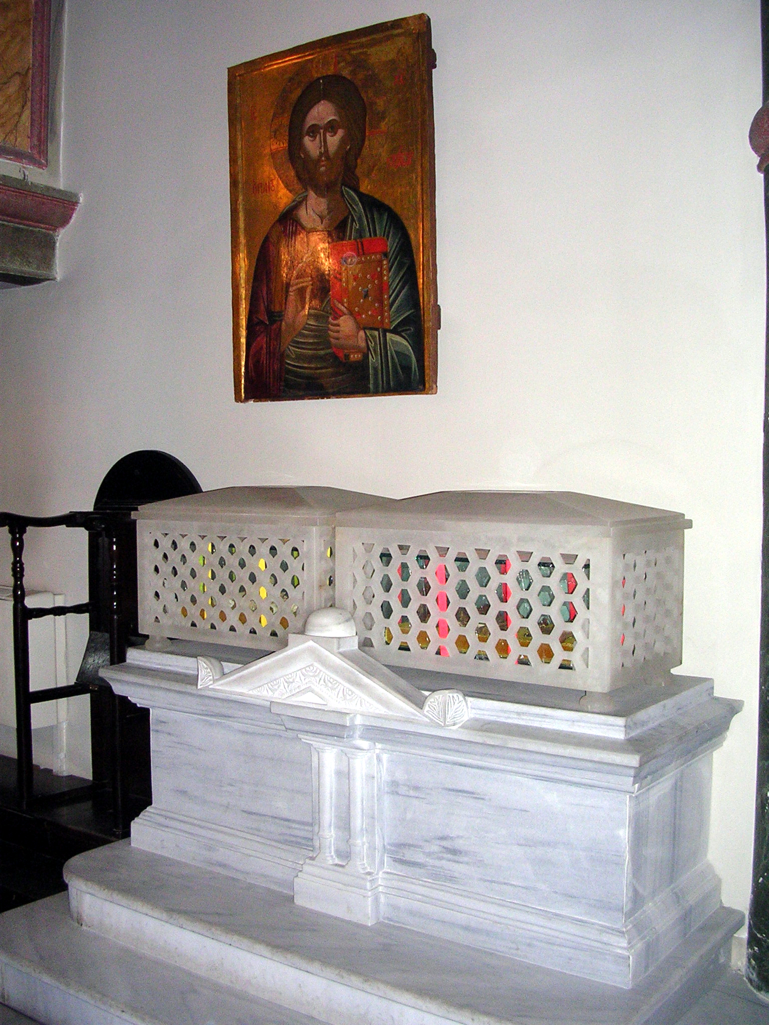 Marble caskets inside the Patriarchal Church of St. George (Hagios Georgios) with the relics of St. John Chrysostom and St. Gregory the Theologian, Istanbul Turkey.